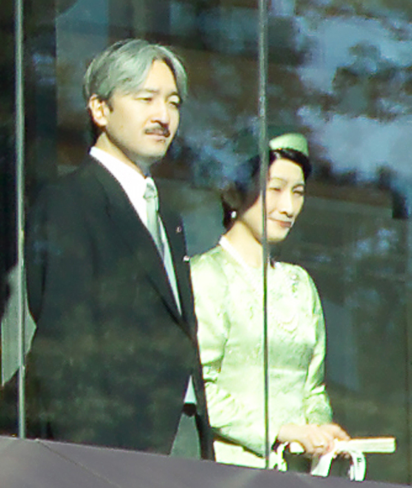 Emperor Akihito at his 72nd birthday, December 23, 2005. Kokyo Kyuden (Tokyo, Japan).